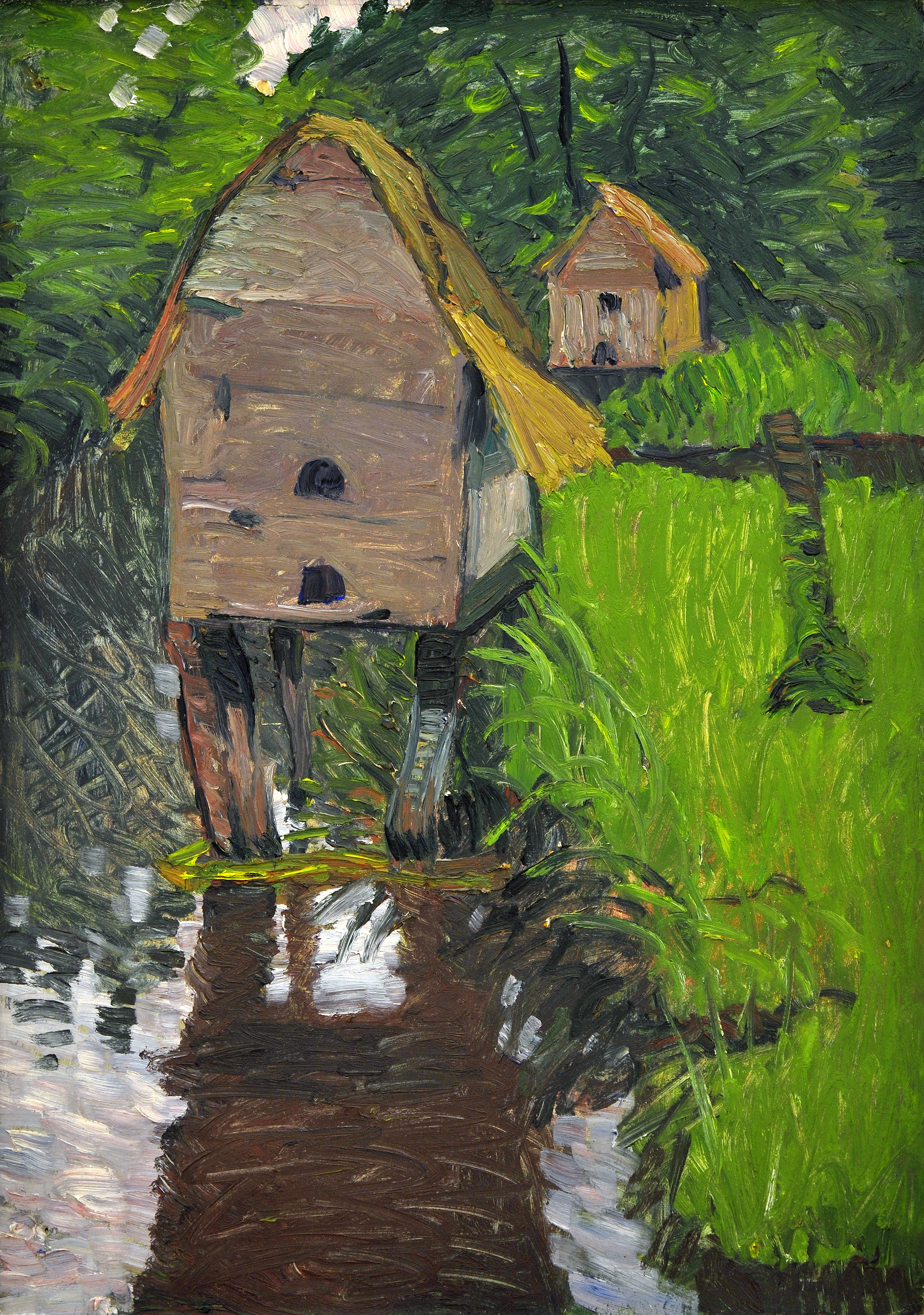 August Haake painted "Duck houses" over a period of 1911-1914 in Fischerhude near Bremen. The duck houses are standing in the river Wümme. On the right side goes a path and a footbridge over a branch by the Wümme.